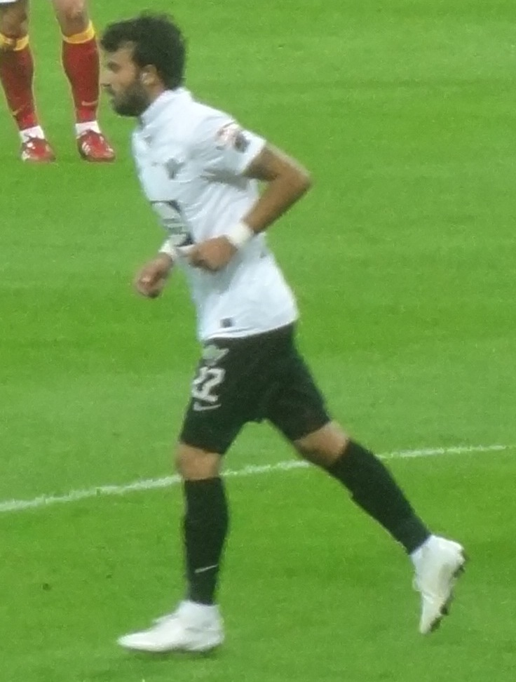 Akhisar vs GS